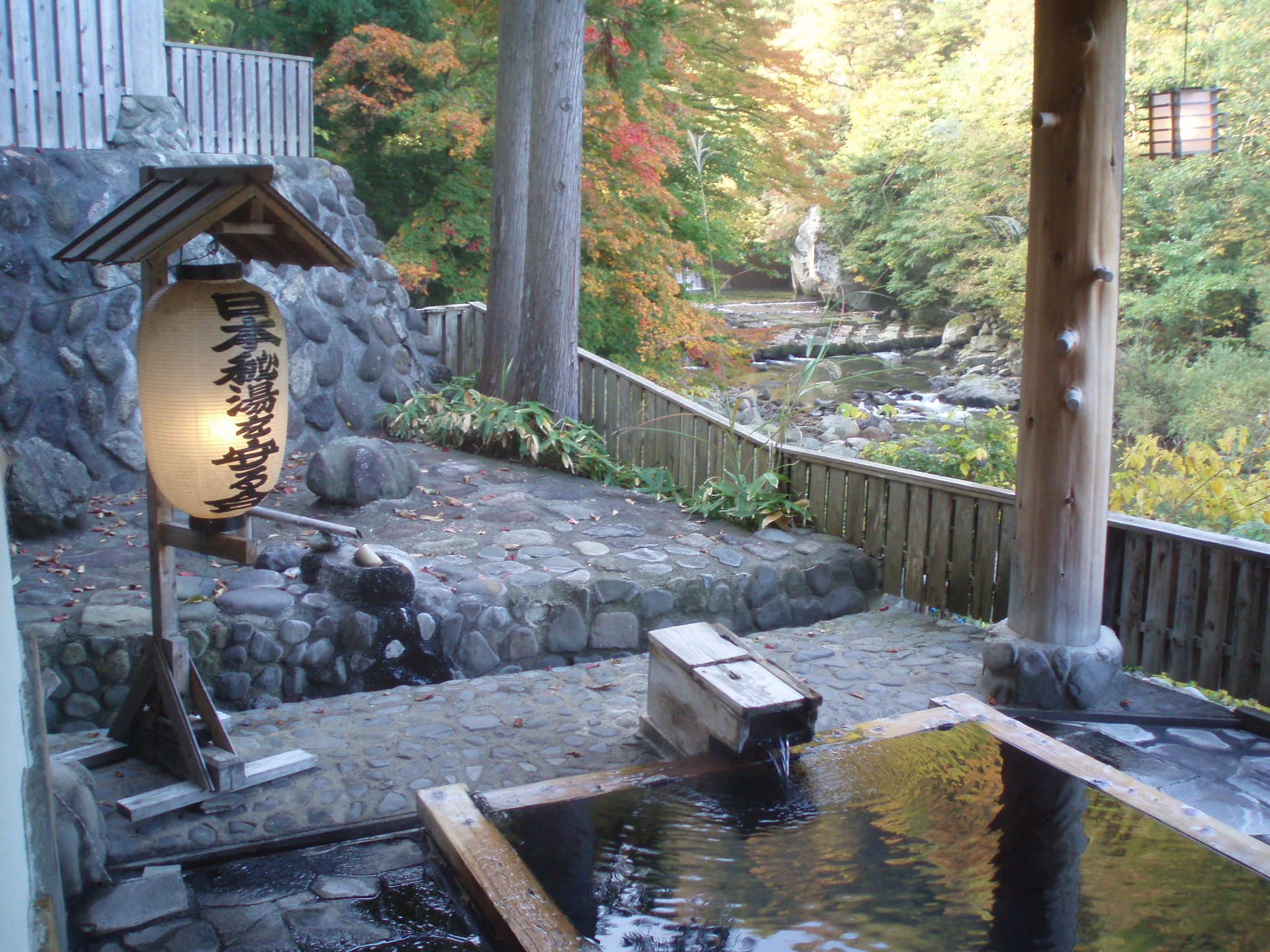 Photo of Rotenburo (outdoor bath) at Takanoyu Onsen, Akita Prefecture, Japan